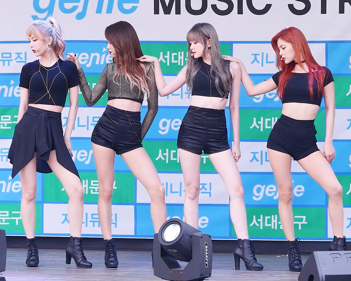 Nine Muses current formation